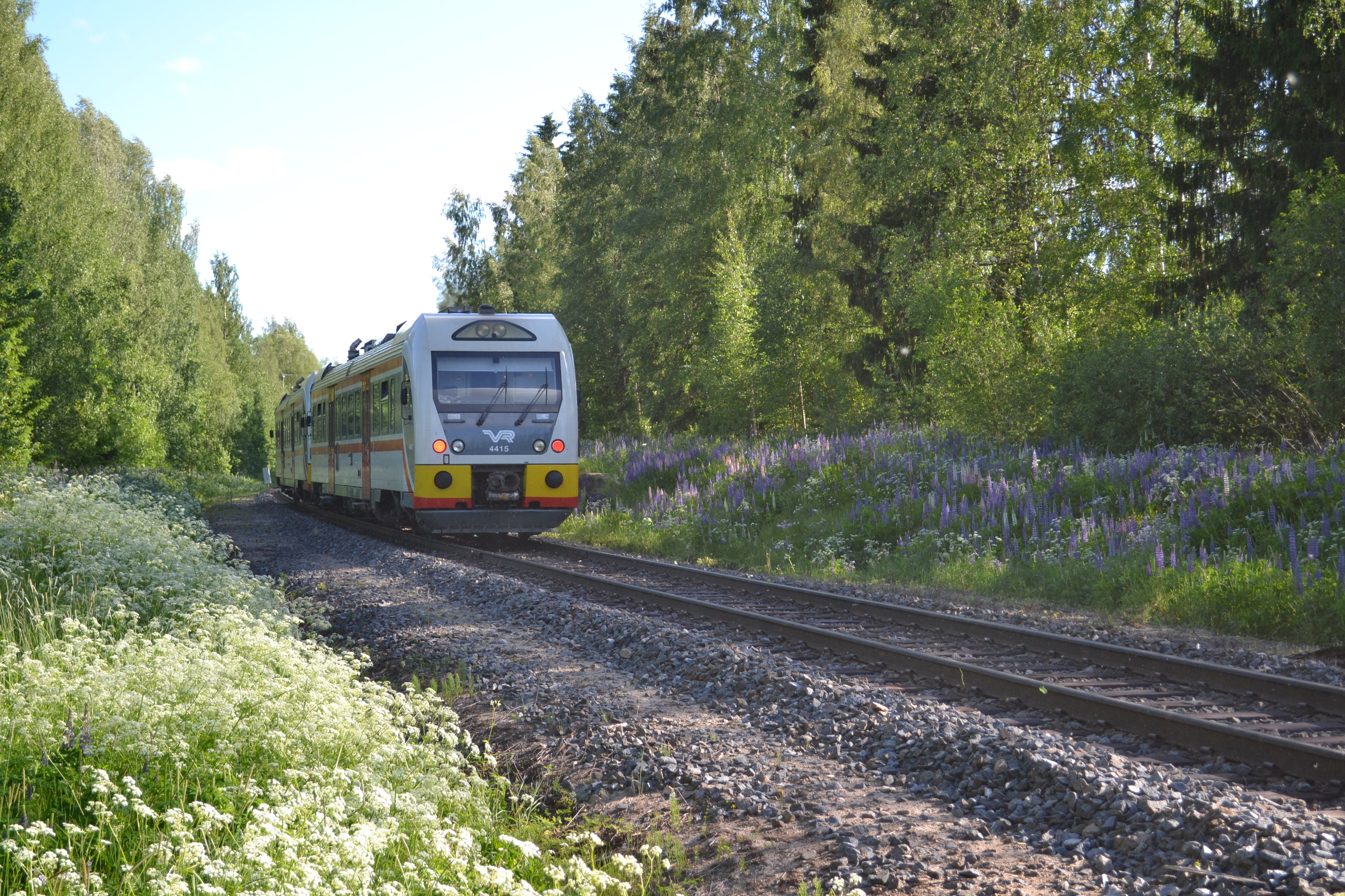 A VR Class Dm12 diesel multiple unit on Tampere–Haapamäki railway in Vilppula, Mänttä-Vilppula, Finland.